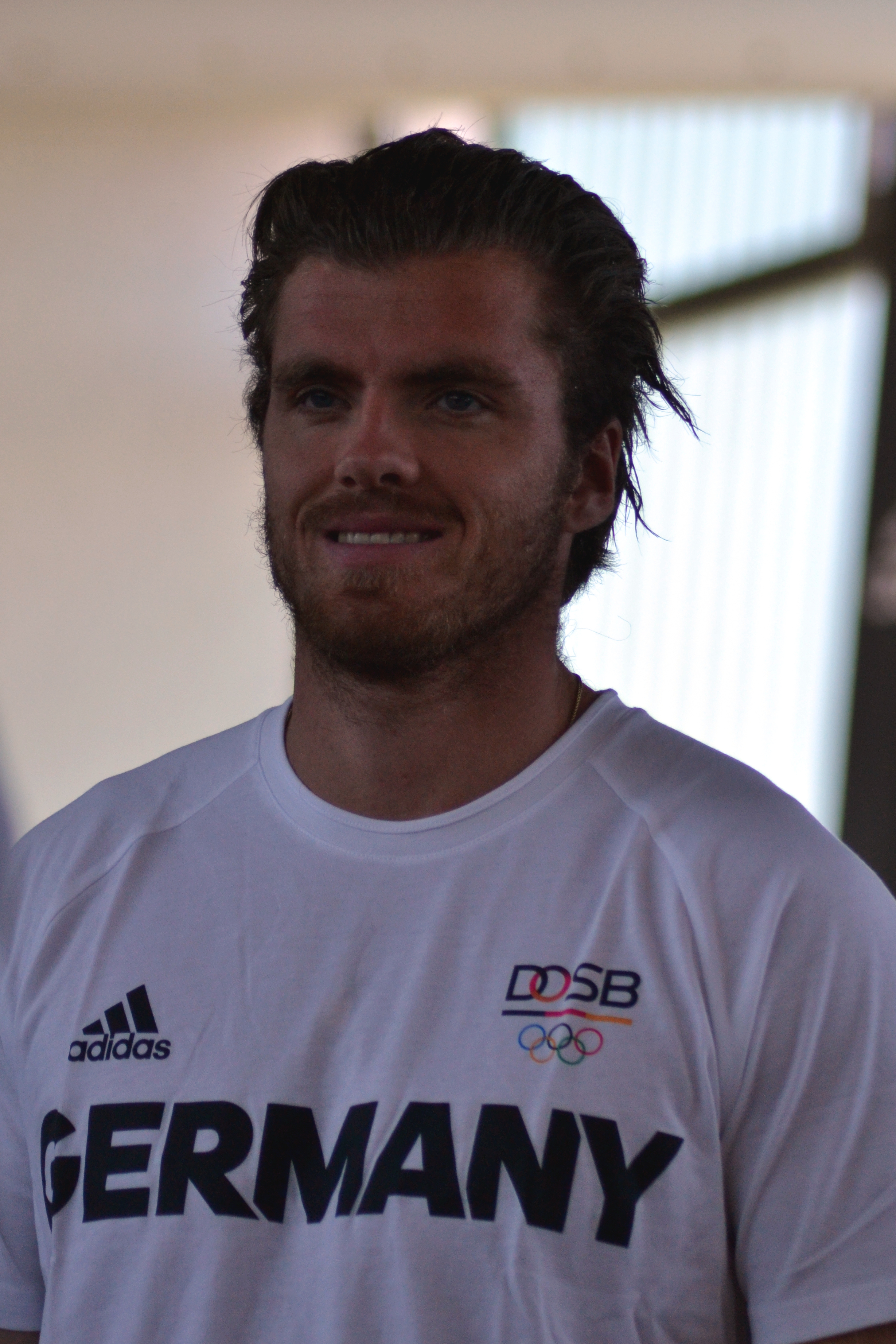 Media day of the clothing of the German Olympic team for Rio 2016 in the Emmich-Cambrai-Kaserne in Hanover. Decathlete Rico Freimuth.